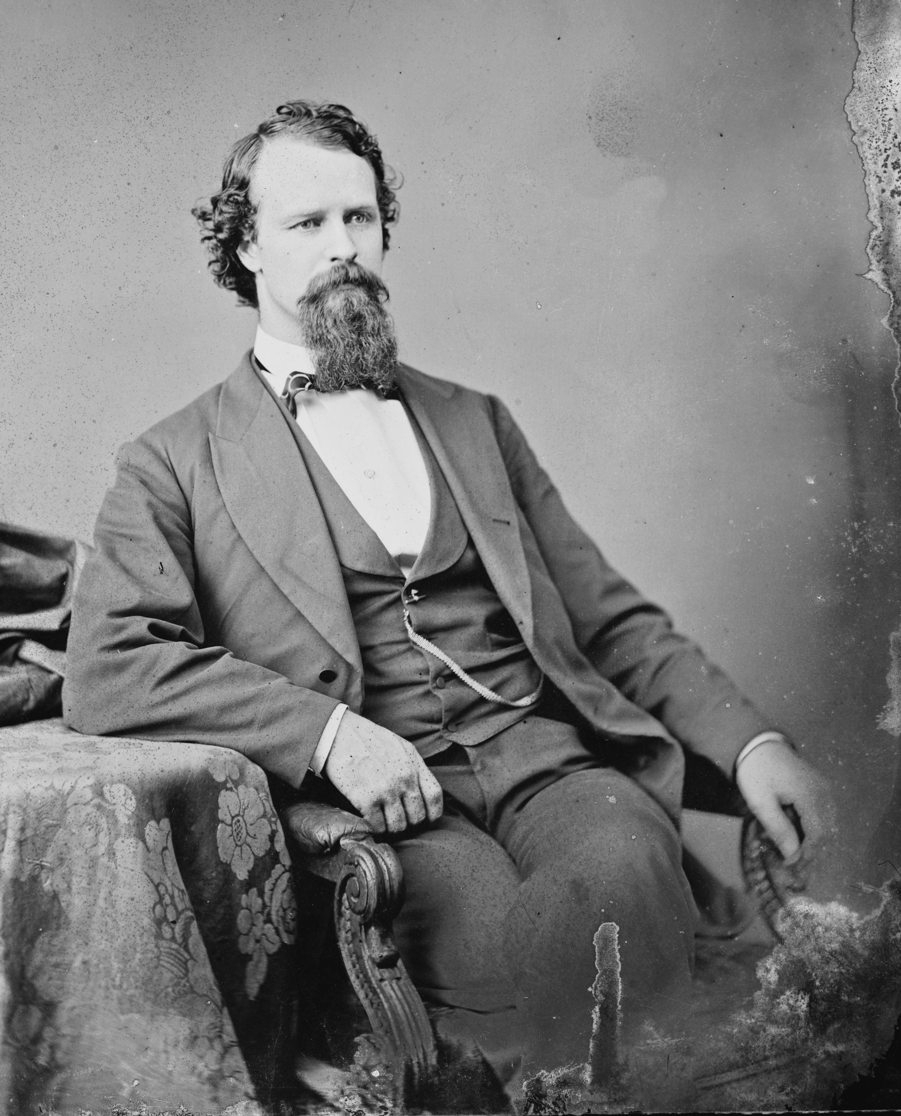 Charles Memorial Hamilton. Library of Congress description: "Hon. Charles Memorial Hamilton of Florida"